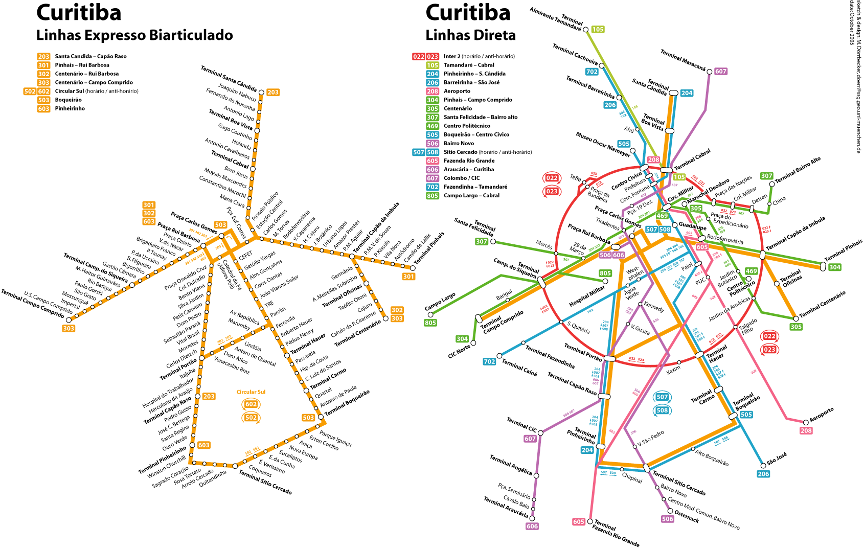 Curitiba (Brazil): City bus system: - express bus routes (linhas expresso biarticulado) and "direct" routes (linhas direta), 10/2005